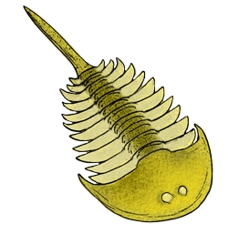 The Cambrian aglaspid arthropod, Aglaspis spinifer, of what is now Missouri